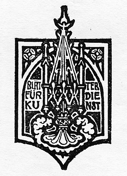 One logo for the german culture- and poetrymagazine "Blätter für die Kunst". Founder: the german poet Stefan George (1868-1933).